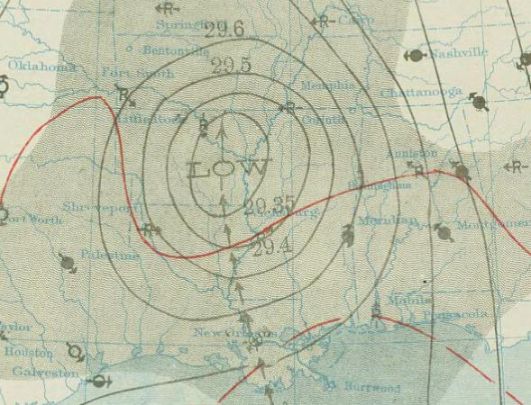 Surface weather analysis of the 1909 Grand Isle hurricane (Hurricane Eight) over the southern United States.